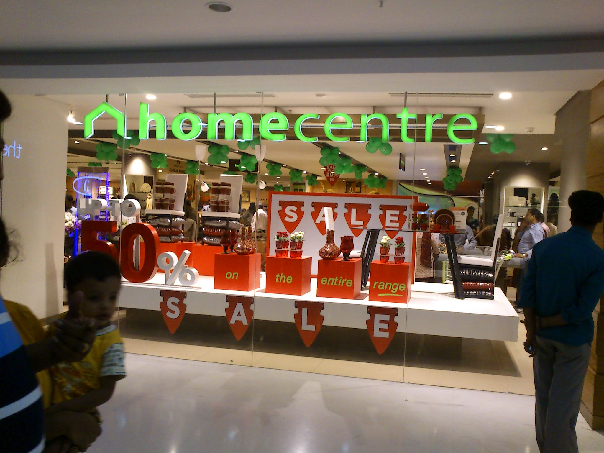 Brooks